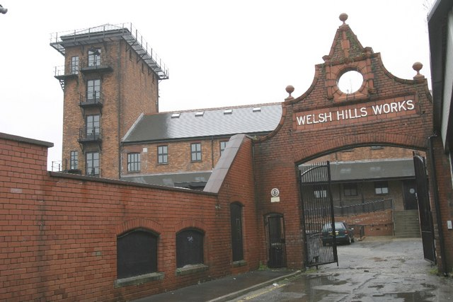 The Pop Factory, Porth Based in the Rhondda Valley, 15 minutes from Cardiff, The Pop Factory was once home to Corona soft-drinks and is now transformed into a venue with TV studios and post-production facilities that combines the modern with the urban and industrial.